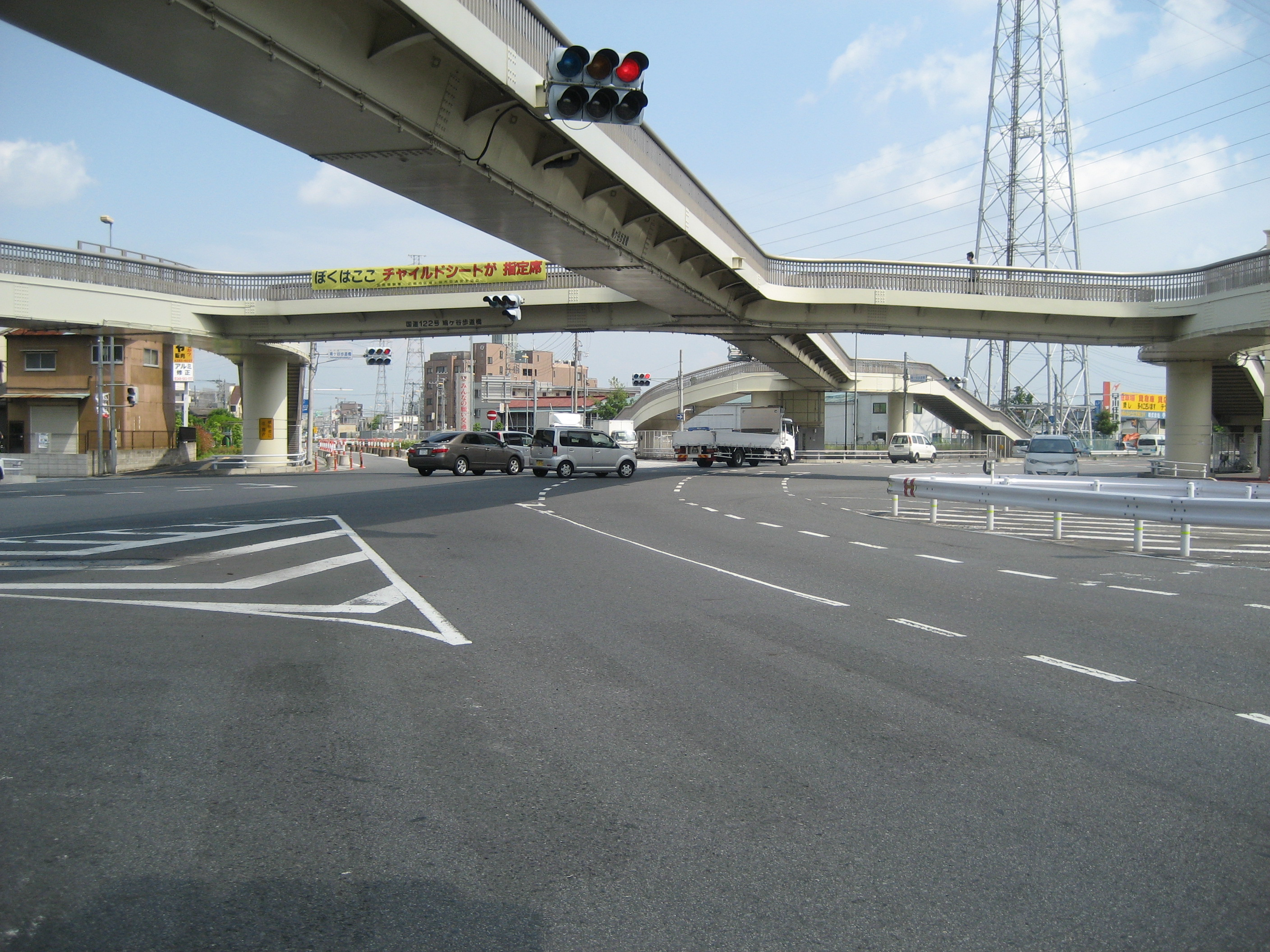 The Hatogaya Footbridge Intersection, where the National Route 122 and the Saitama Prefectural Road Route 34 meet